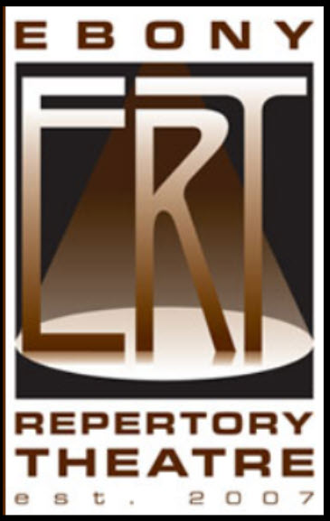 Logo for Ebony Repertory Theatre with ERT styling as appears on all materials since founding in 2007; Ebony Repertory Theatre is the resident theatre company and operator of the Nate Holden Performing Arts Center